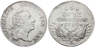 GERMANY, Prussia. Friedrich II. 1740-1786. AR 8 Groschen (8.26 gm). Dated 1754. Bare head right / Denomination and date in four lines over banners; A below. KM 274. Good VF, lustrous, cleaned, retoning.